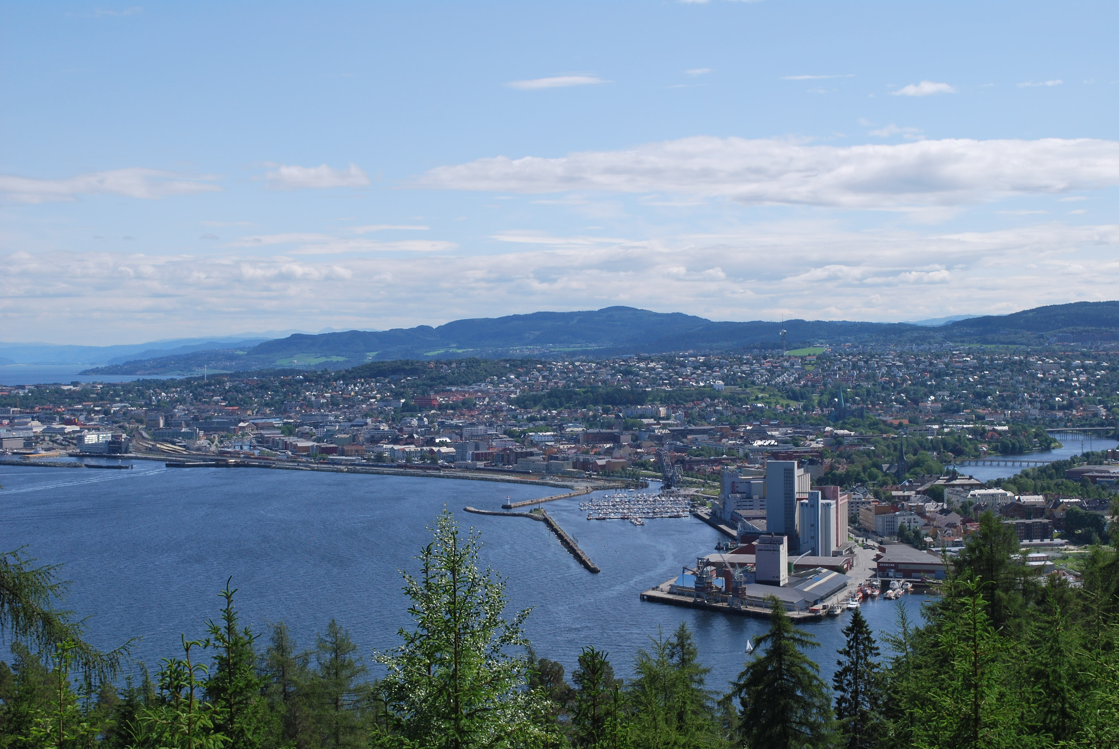 View over the city of Trondheim from Våttåkammen in Bymarka.